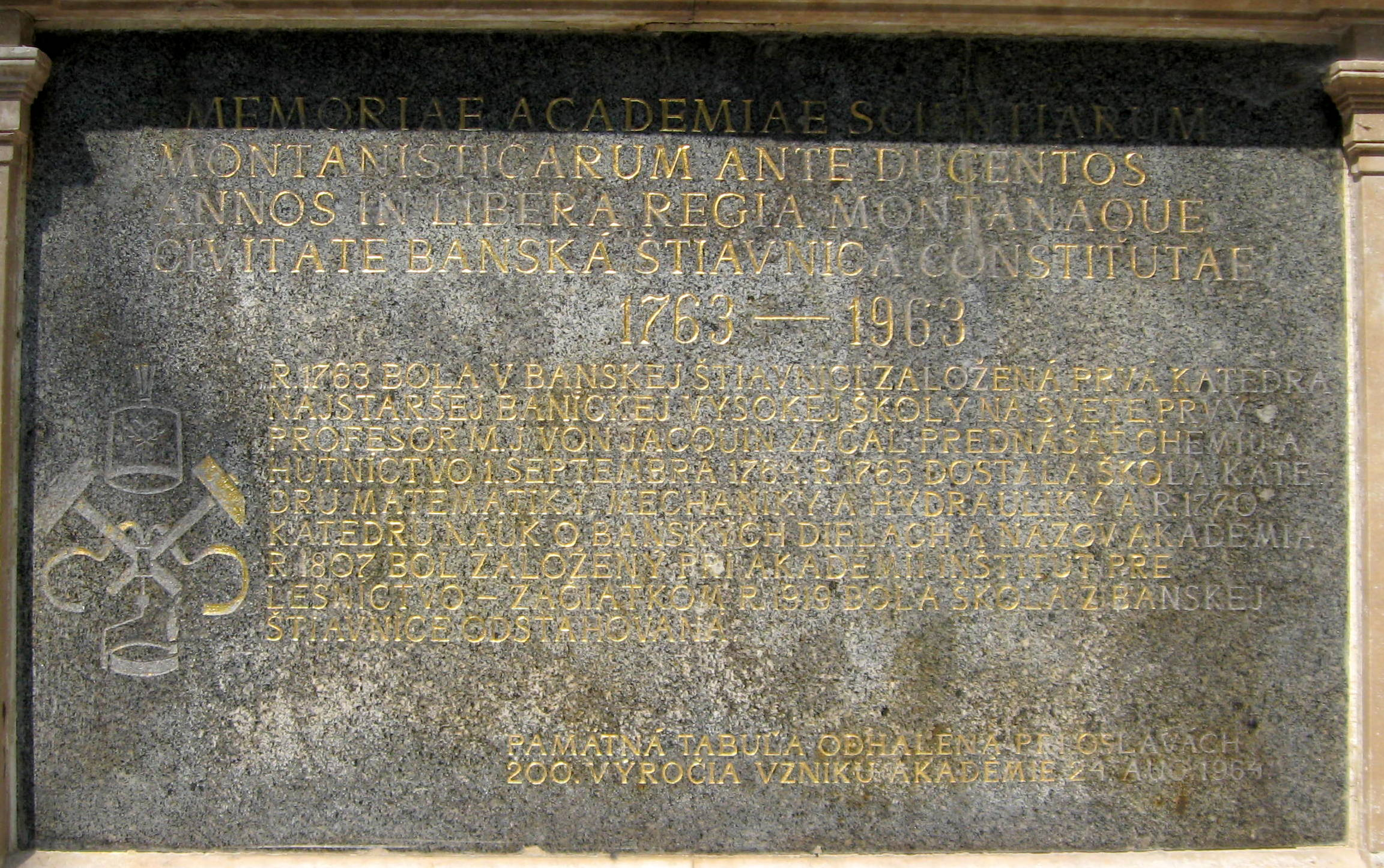 Plaque memorializing the Academy of Mining and Forestry, Banska Stiavnica, Slovakia. Located mid-way along the grand entrance stairs through the main entrance. The first part (in Latin, roughly translated) reads: "On the 200th anniversary of the founding of the Academy of Mining in the Free Royal Mountain City of Banska Stiavnica, 1763-1963." The second part (in Slovak, also roughly translated): "The first department in the oldest mining university in the world was established c. 1763. The first professor, M.J. von Jacquin, commenced lecturing in Chemistry and Metallurgy on September 1, 1764. The Departments of Mathematics, Mechanics and Hydraulics, were established c. 1765. The Department of Mining Sciences was established c. 1770, at which time the Academy was given its name. The Forestry Institute was established at the Academy in 1807. The school was moved out of Banska Stiavnica, beginning in 1919."